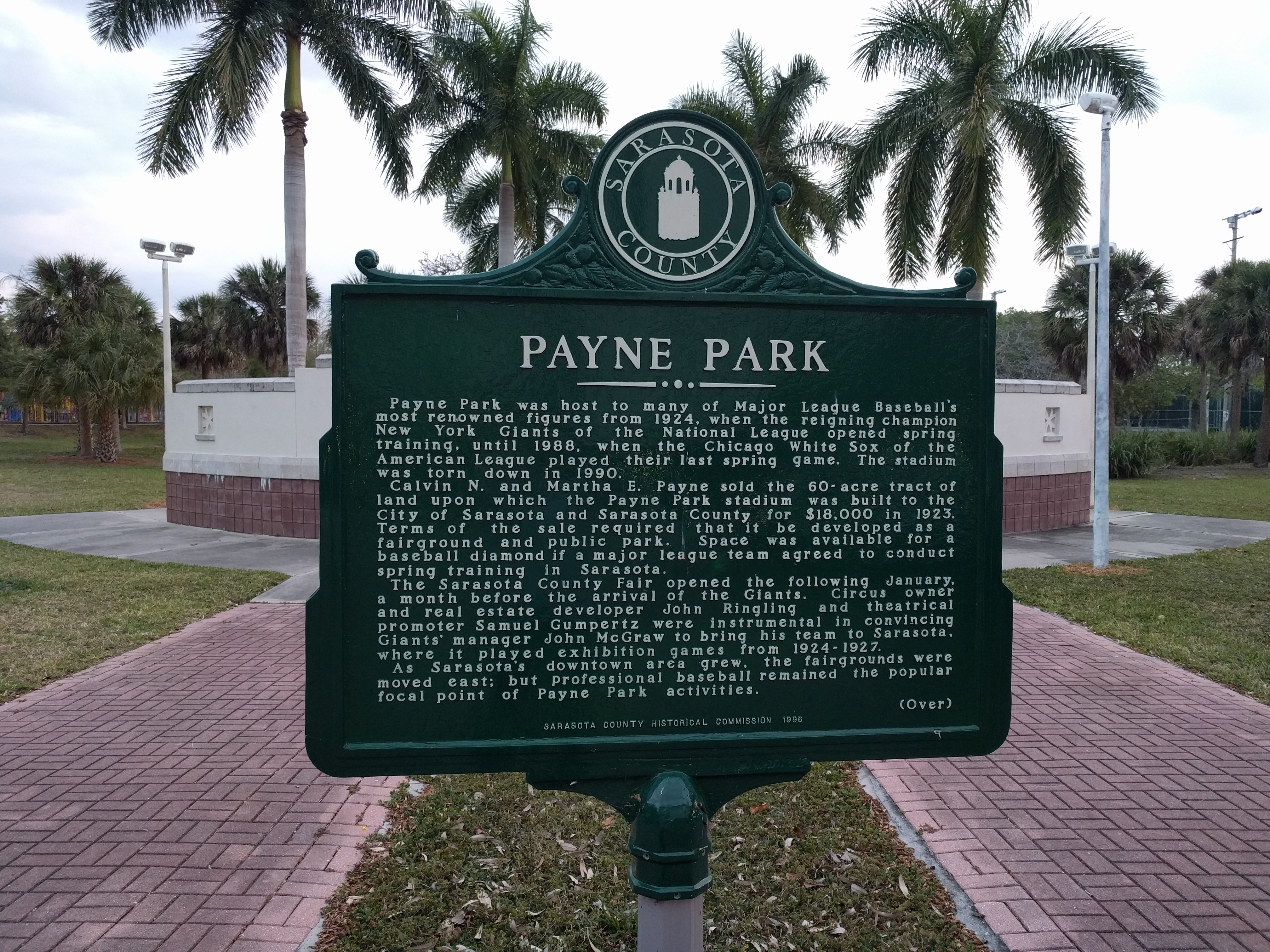 Historical marker of Payne Park in Sarasota, Florida